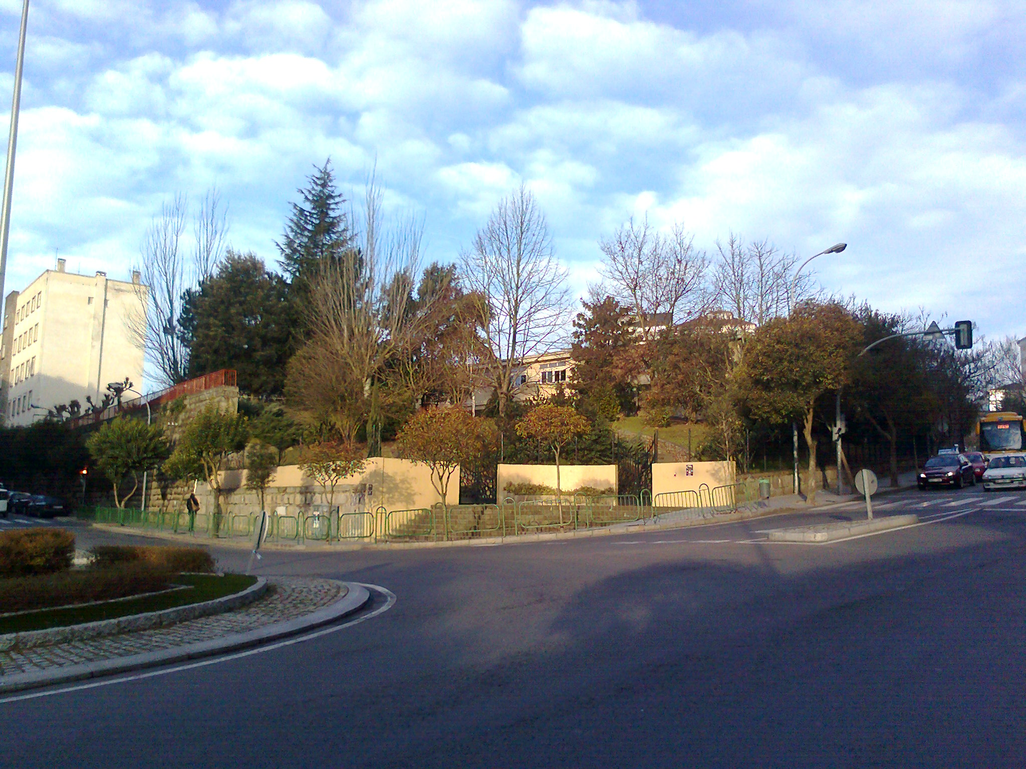 Secondary School Eduardo Blanco Amor, Ourense (Spain)